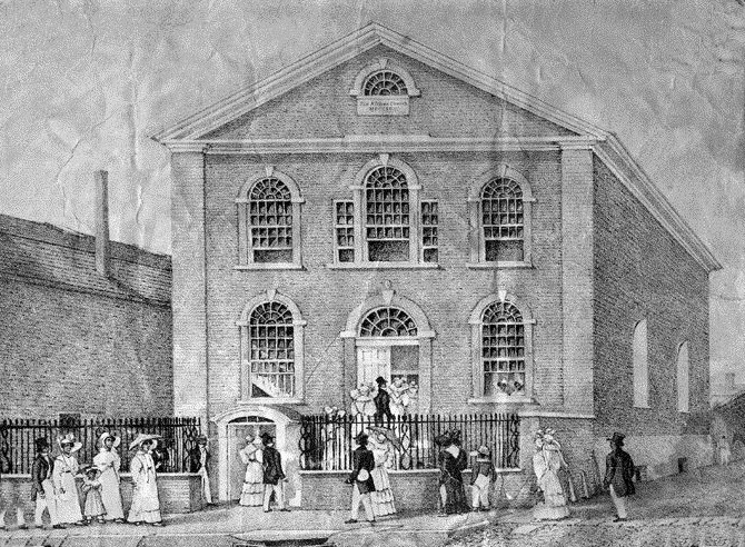 African Episcopal Church of St. Thomas was founded in 1792 in Philadelphia, Pennsylvania, as the first black Episcopal Church. Its congregation developed from the Free African Society, a non-denominational group formed by blacks who had left St. George's Methodist Church because of discrimination.